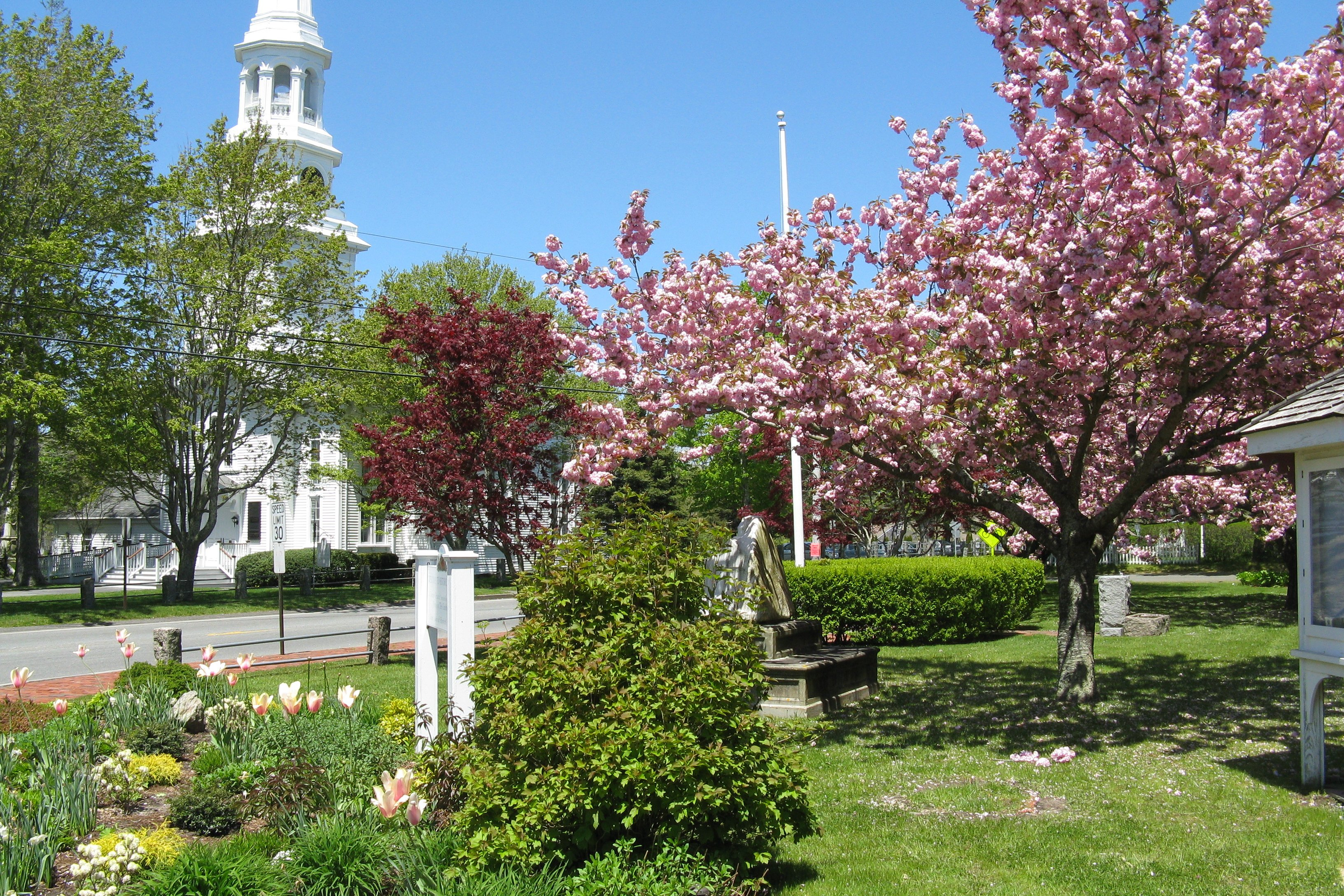 Corner of Main Street and Pleasant Lake Avenue, Harwich Massachusetts